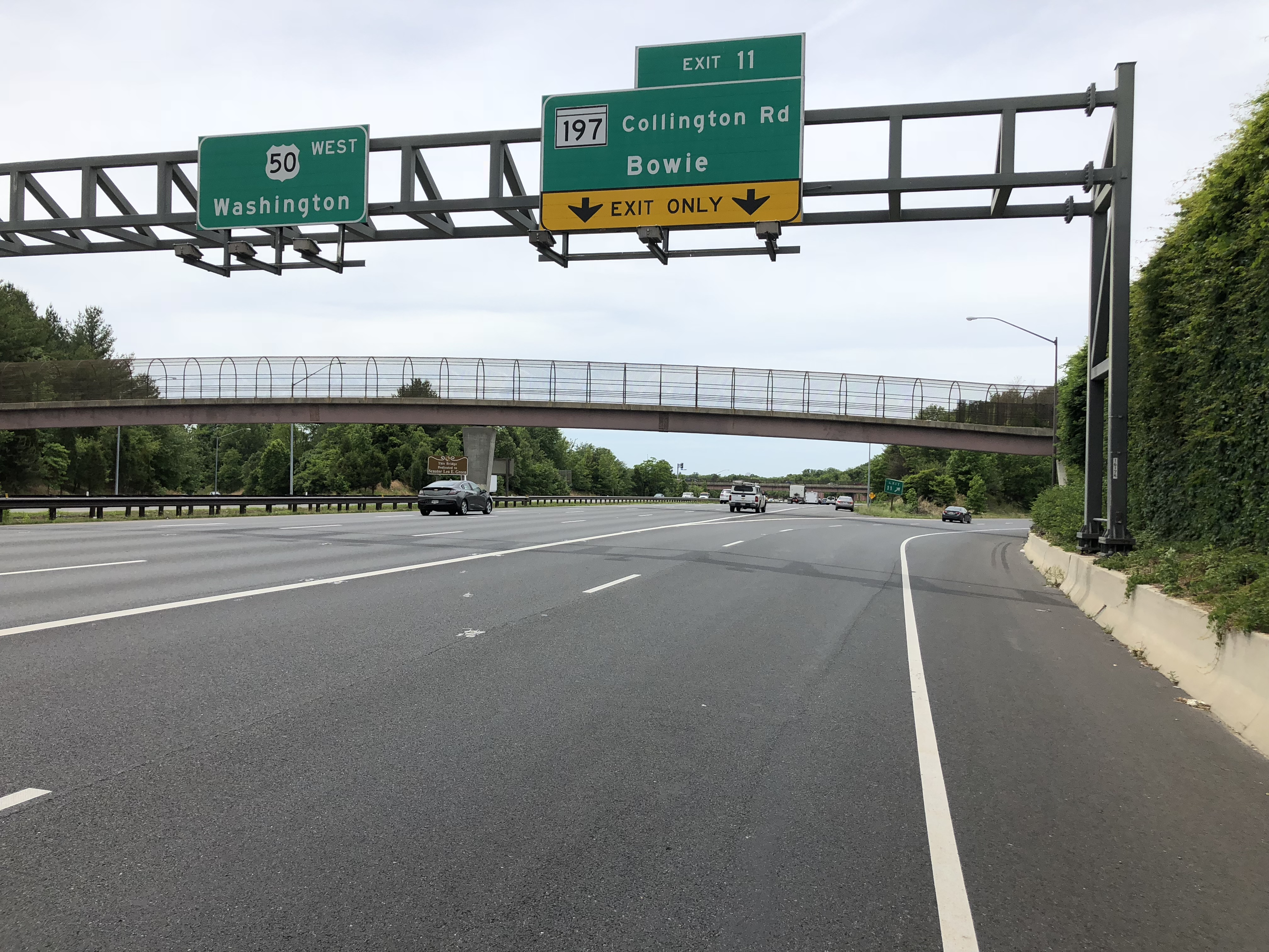 View west along Interstate 595 and U.S. Route 50 (John Hanson Highway) at Exit 11 (Maryland State Route 197/Collington Road, Bowie) in Bowie, Prince George's County, Maryland